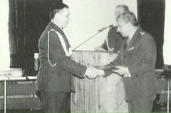 Garnizon Stargard, 1991r. Dowódca 12DZ płk. dypl. Andrzej ekiert podczas wręczania wyróżnienia dowódcy batalionu medycznego